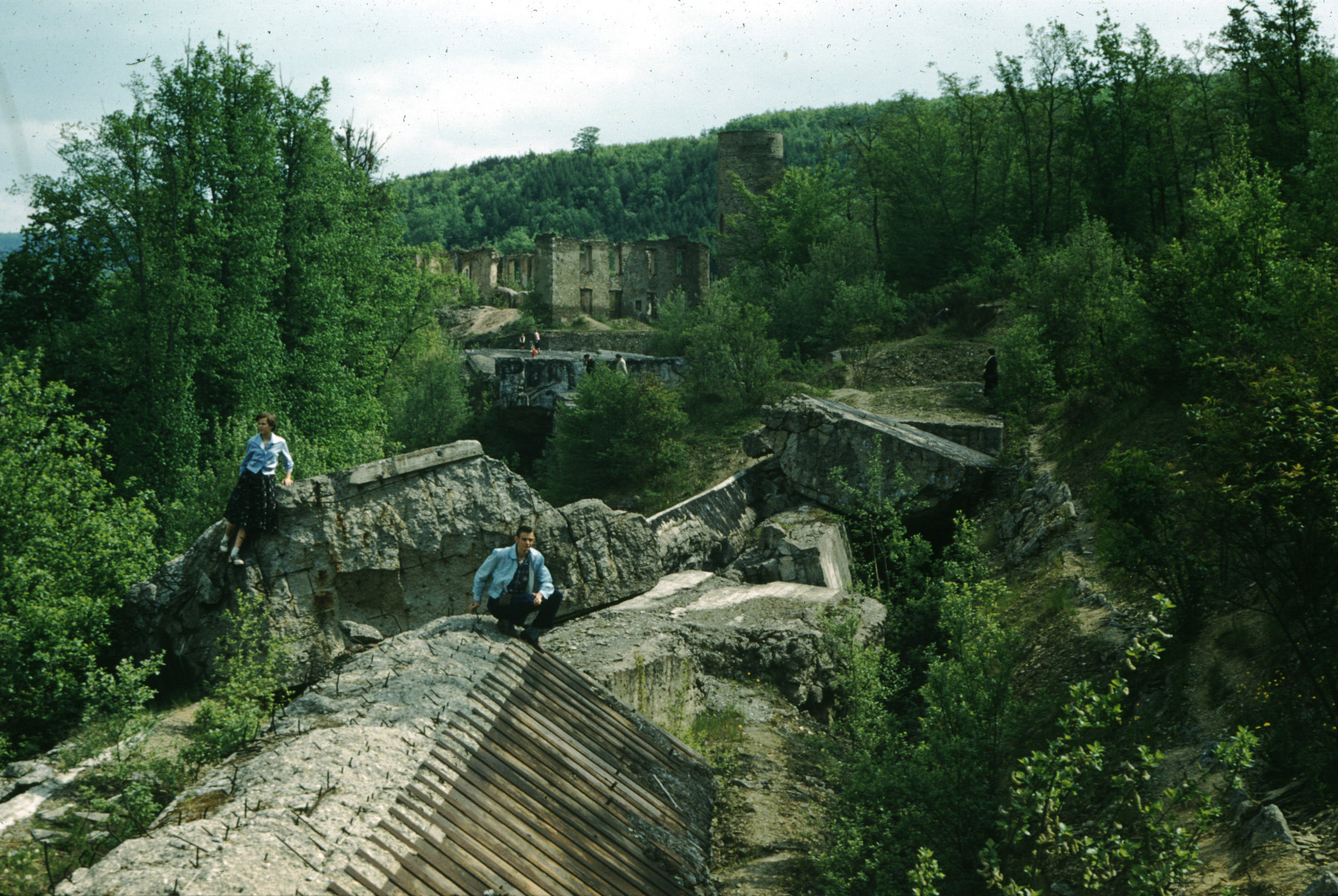 Part of the Adlerhorst bunker that was demolished. 1956